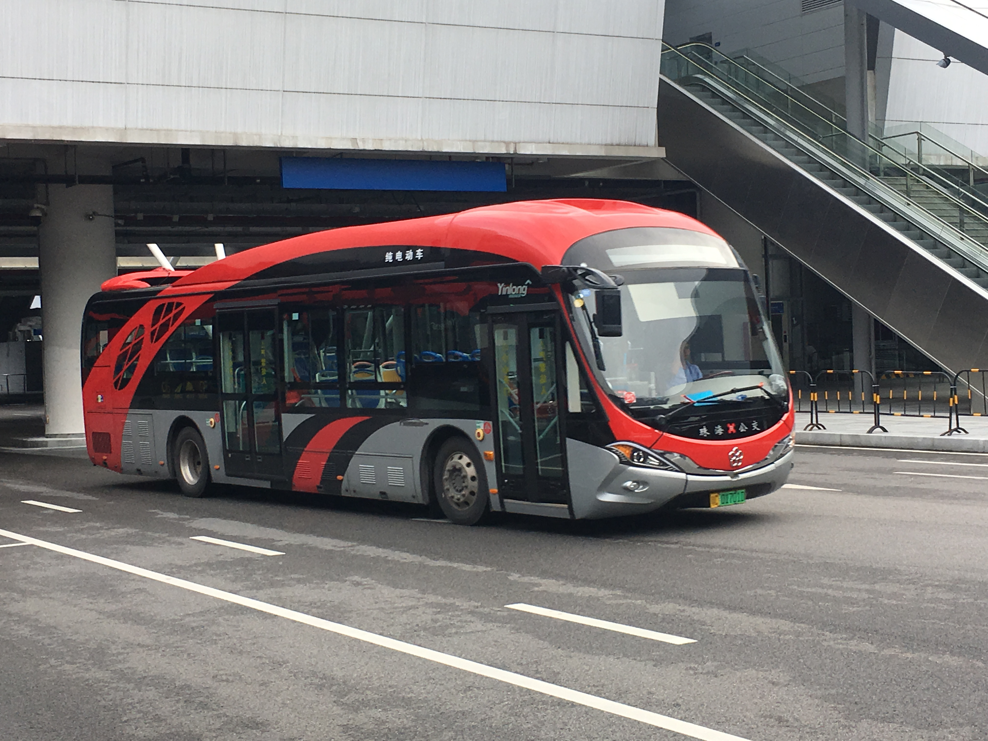 中文（香港）: This photo is taken in HZMB Zhuhai Port.